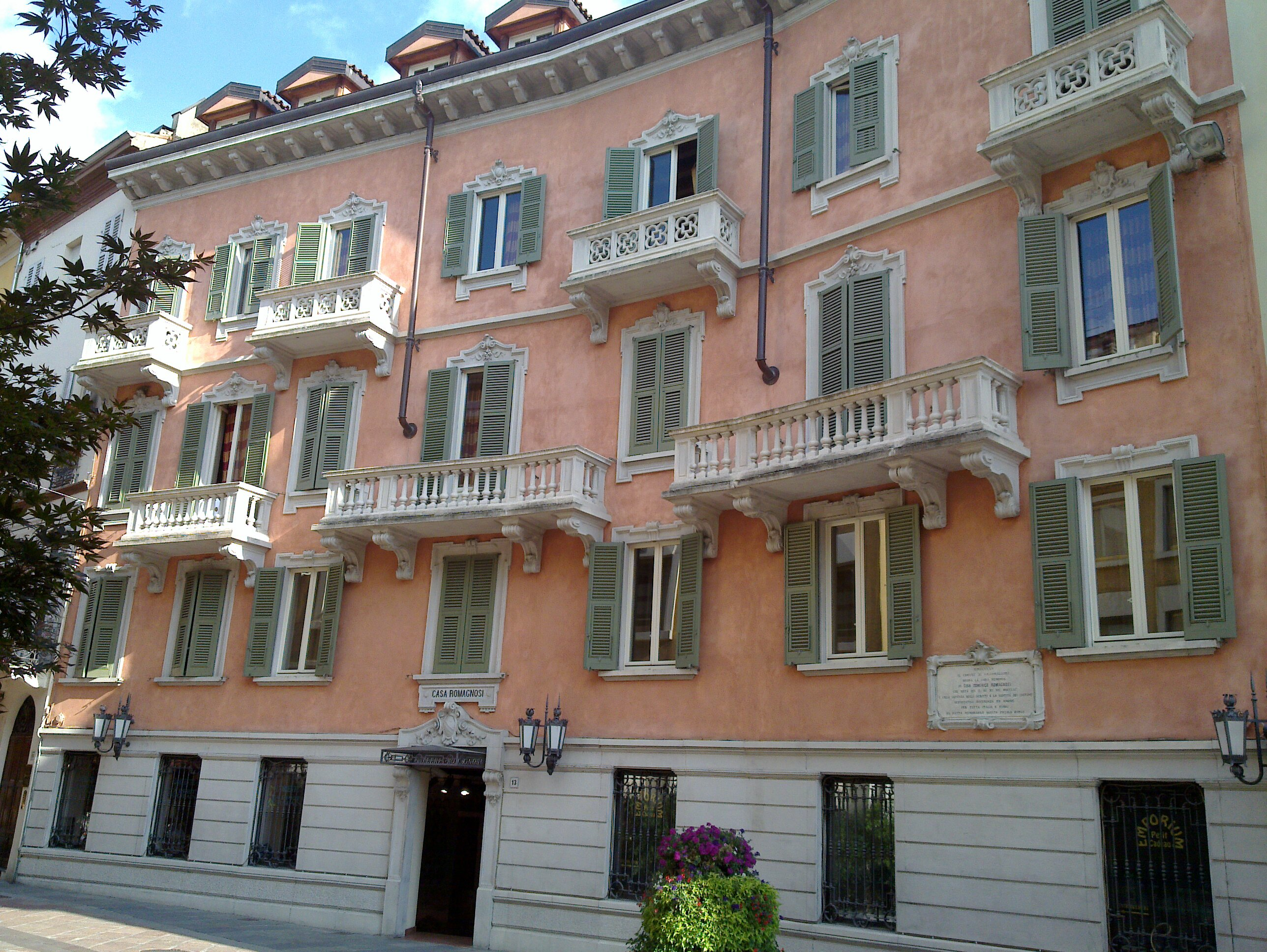 House where he was born in 1761, Gian Domenico Romagnosi in Salsomaggiore Terme (Parma) Italy